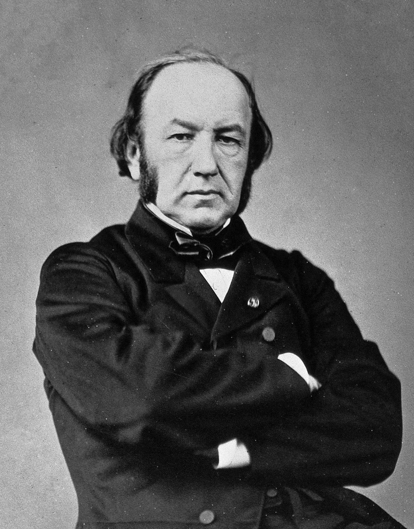 Picture of Claude Bernard (1813 - 1878), the noted French physiologist